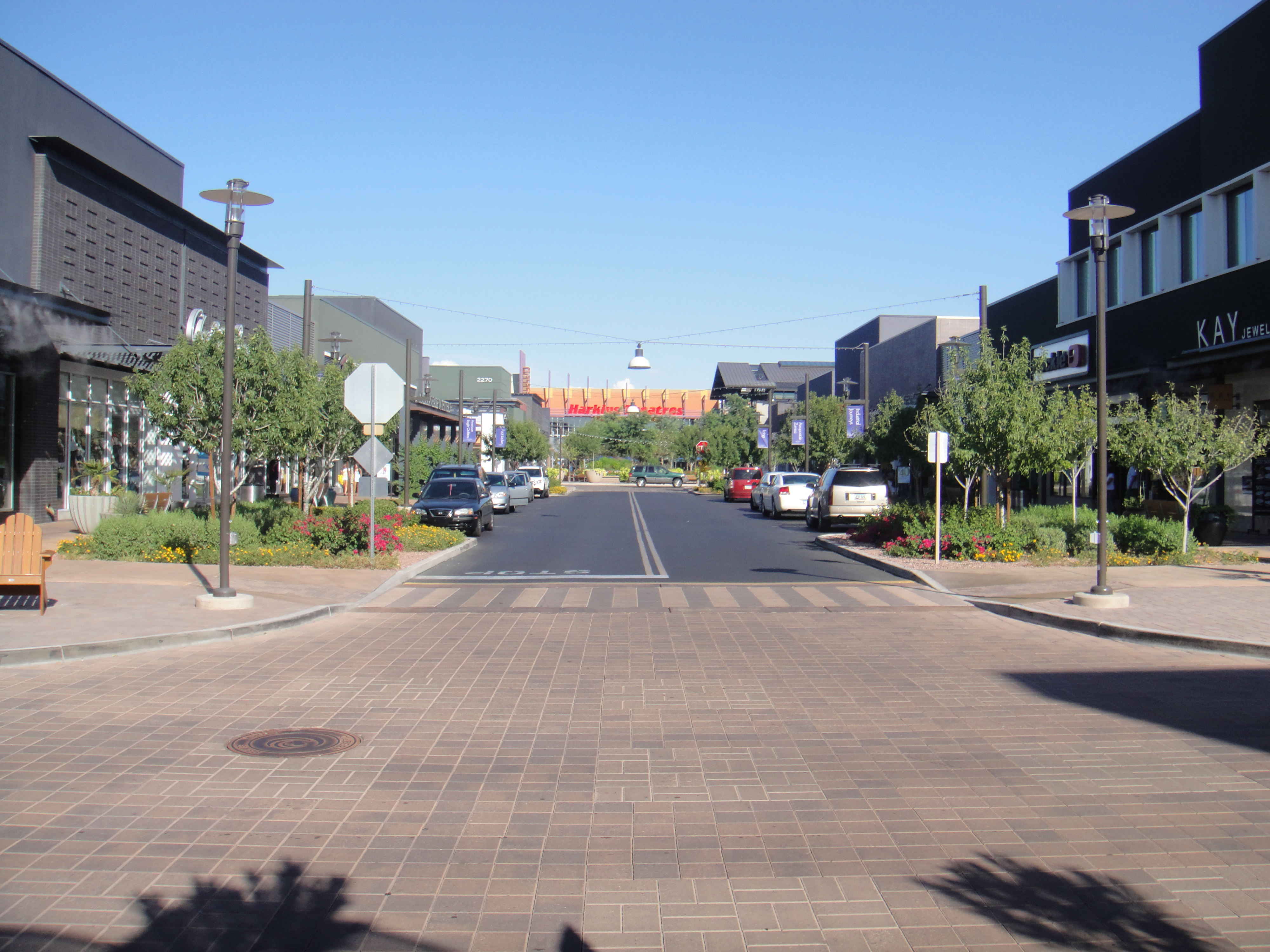 Photo at SanTan Village looking east towards the Harkins Theaters on SanTan Plaza in Gilbert, Arizona